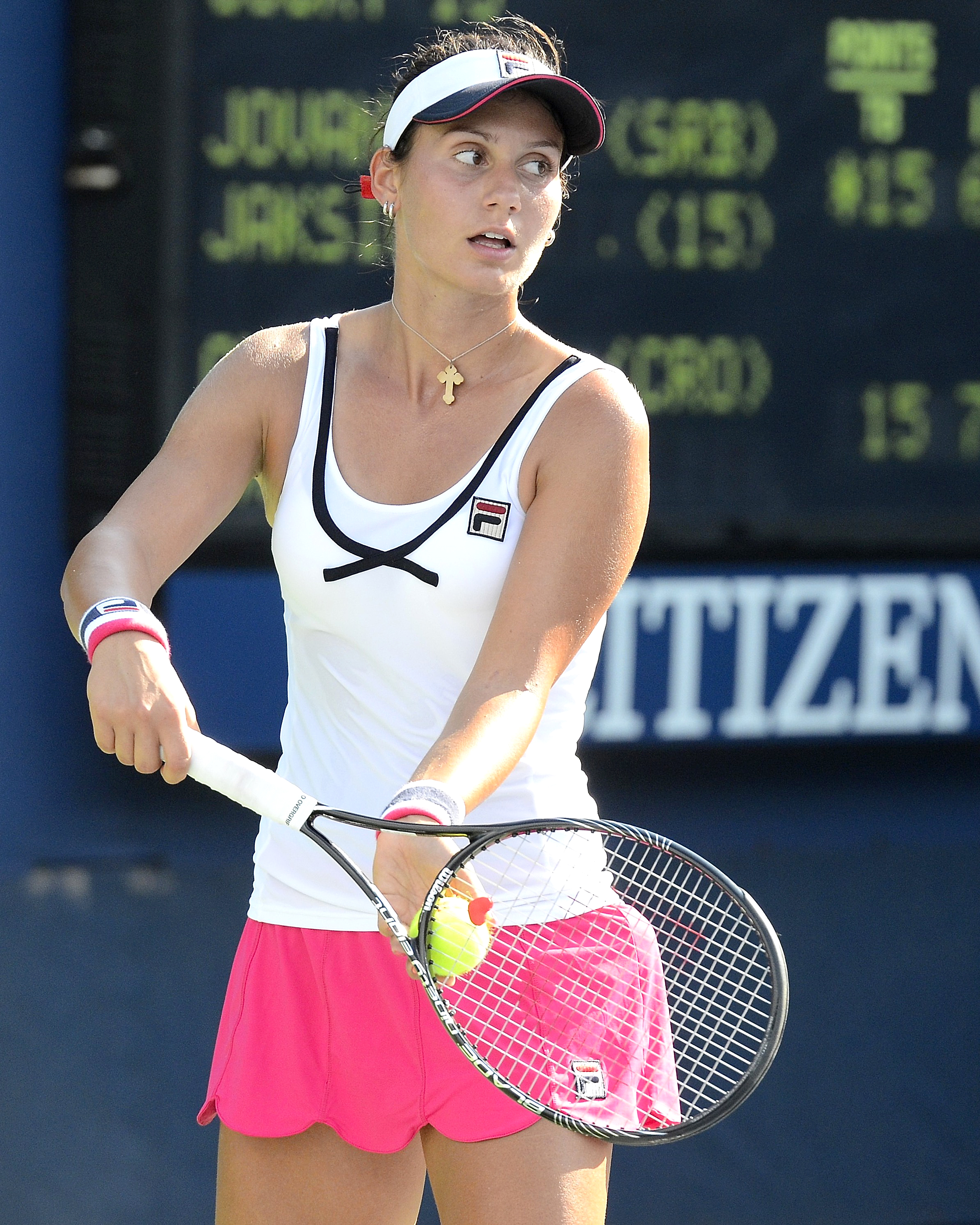 August 19, 2014 Queens, NY Jovana Jaksic (SRB) def. Ana Vrljic (CRO)